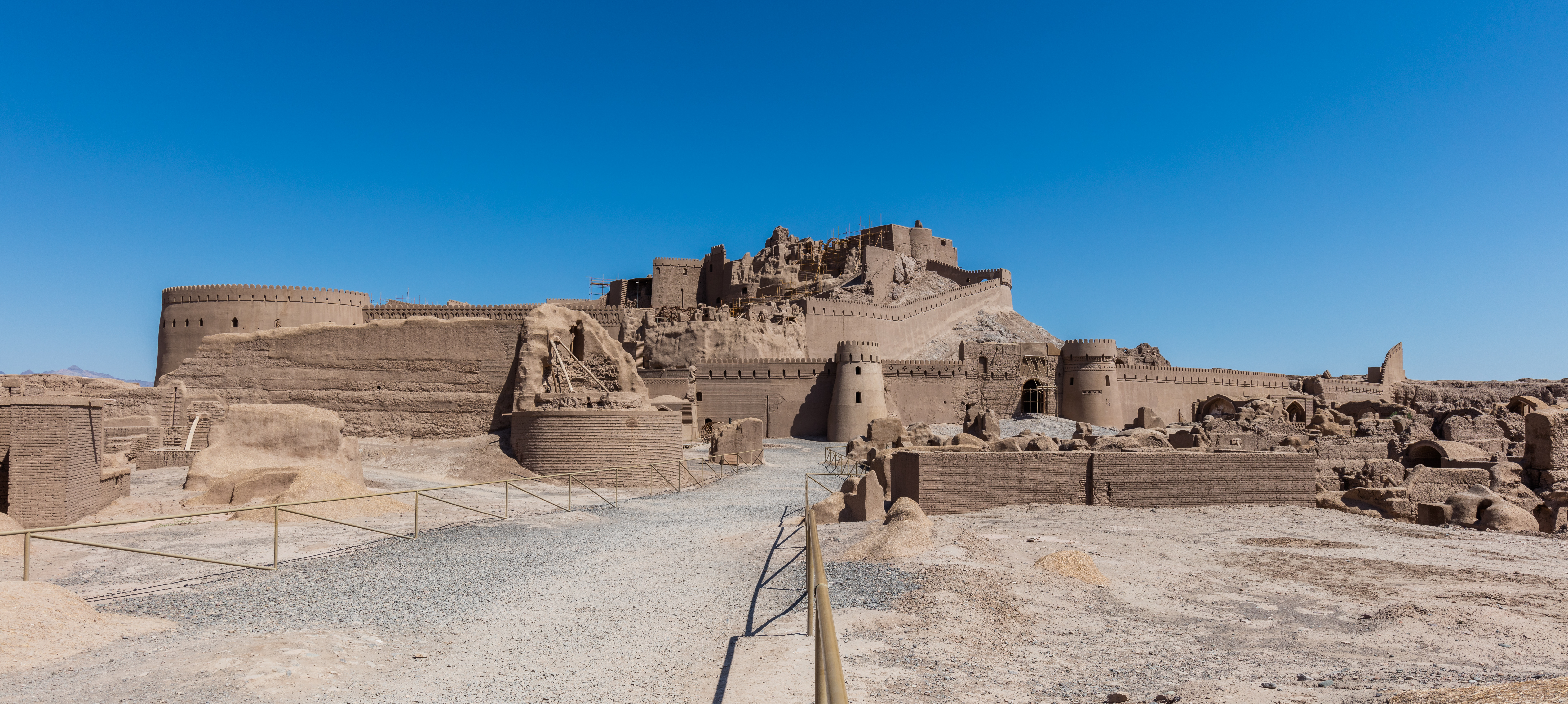 Fortress of Bam, Iran